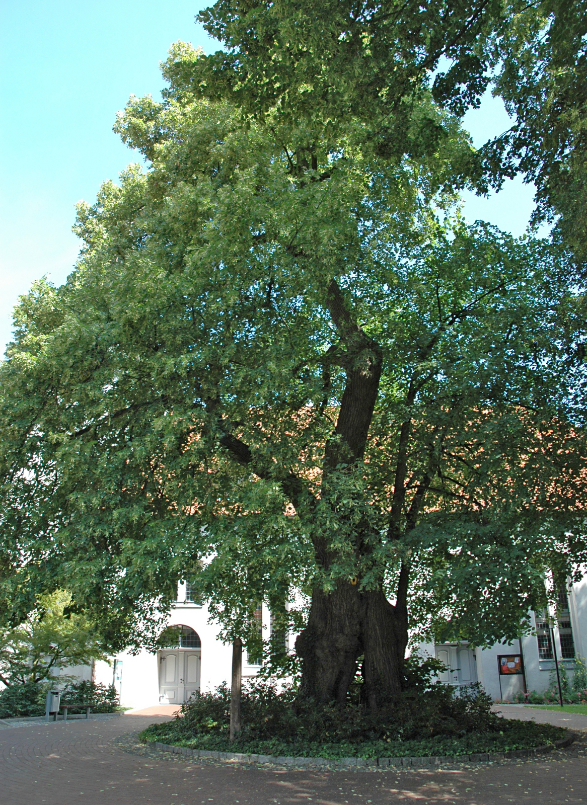 Gerichtslinde in front of the St. Lucas-Church in Scheeßel